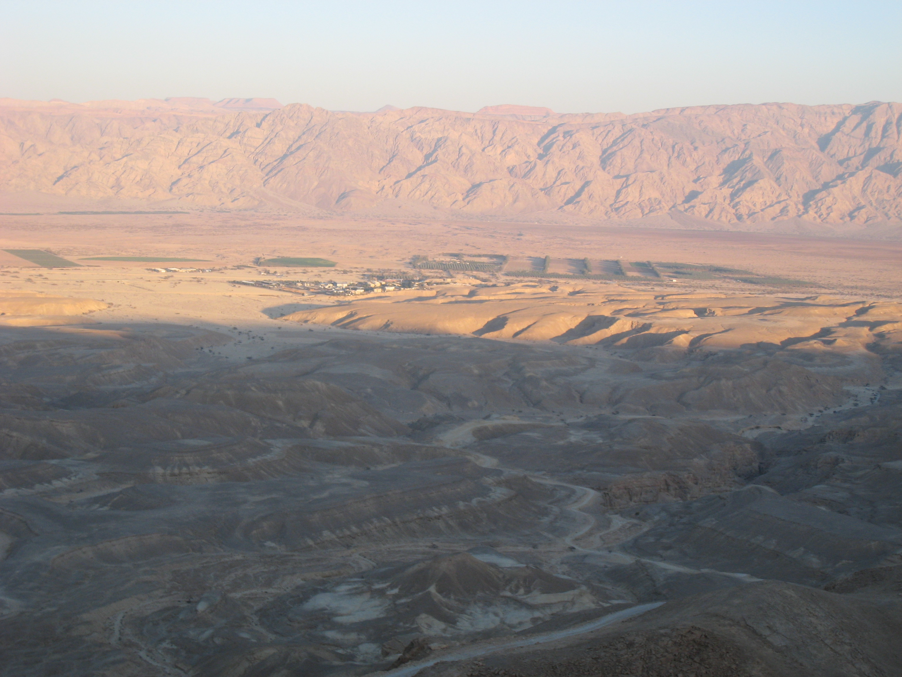 Wadi Aravah (Sunset) from Israel to Jordan.